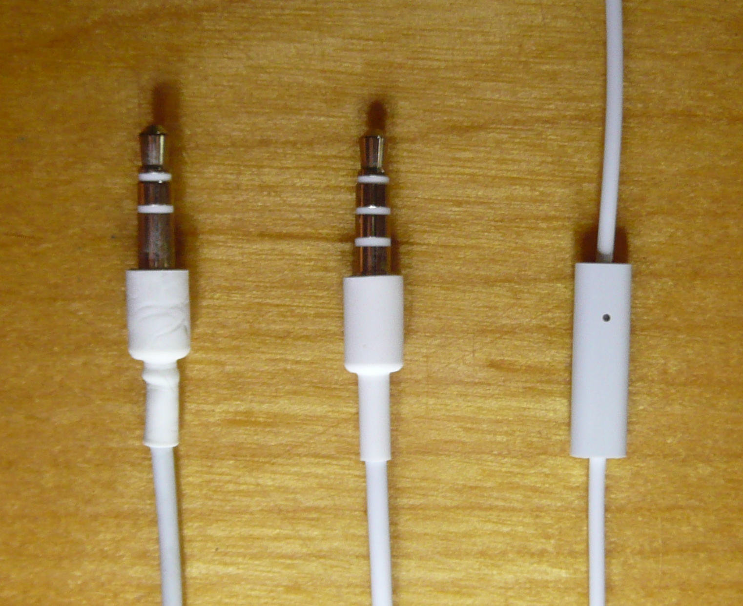 Left: TRS (Tip Ring Sleeve) connector for iPod headphones. Center: TRRS jack for iPhone. Right: the microphone and control button for iPhone, part of the same headset as the center jack. Both products were made by Apple, but third party jacks have the same number of rings (TRRS has an extra one). In both connectors the tip (topmost) connector is connected to the left earbud speaker and the first ring (adjacent to tip) is connected to the right earbud. The iPod connector's sleeve (bottommost connector) is connected to common/ground. The iPhone connector's second ring is connected to common/ground. The iPhone connector's sleeve (bottommost connector) is connected to the microphone and switch; pressing the switch short circuits the sleeve to the second ring.